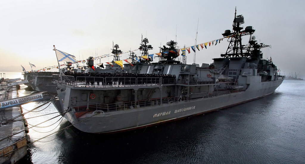 “The large anti-submarine vessel Admiral Shaposhnikov”. Raising Andreevsky flag and dressing flags on the frigate Admiral Shaposhnikov at celebrations dedicated to Defender of Fatherland Day.